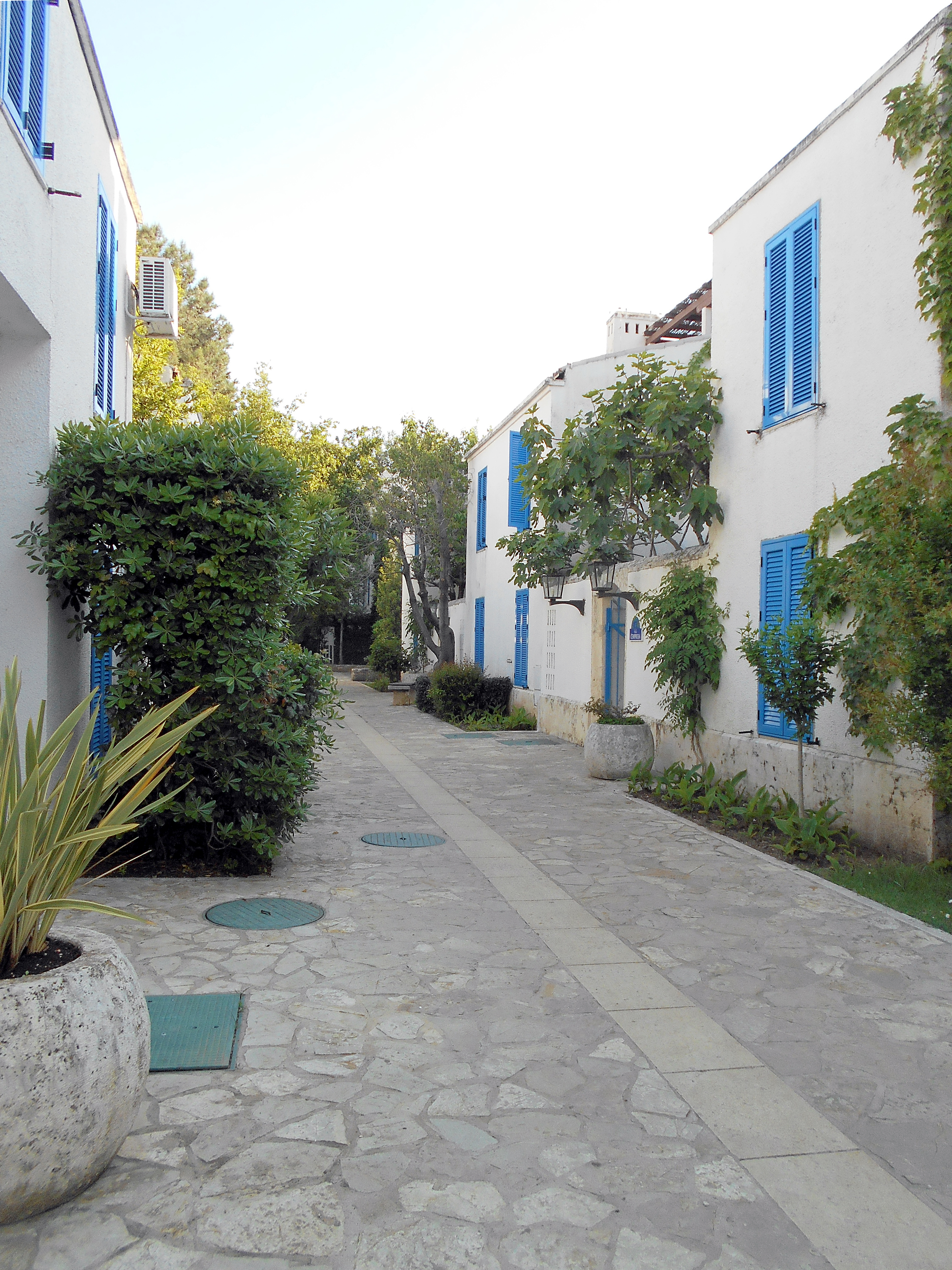 Architectural details in Slovenska plaža (Slavic beach) tourist resort in Budva (Montenegro)